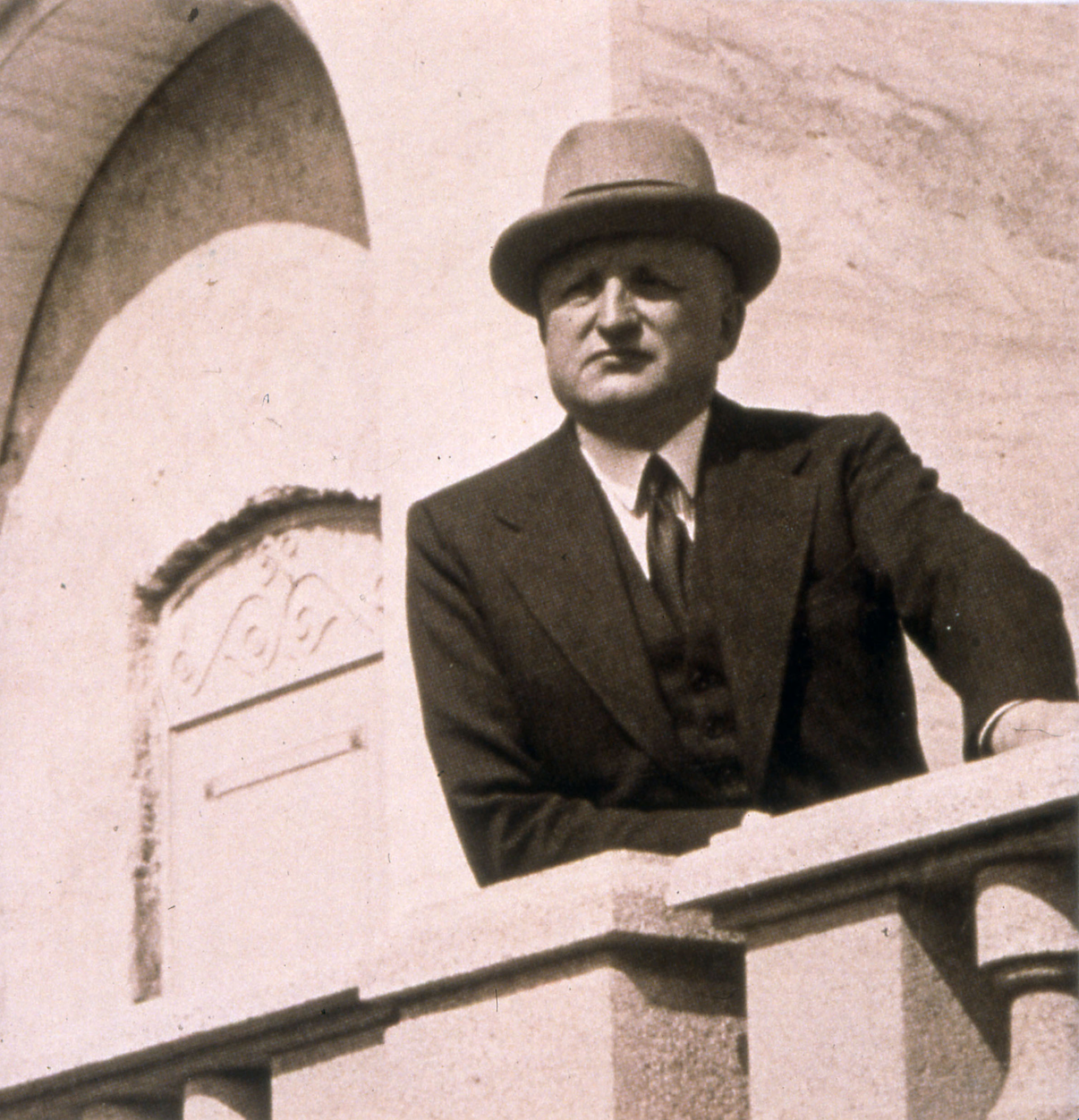 Ermenegildo Zegna, founder of Italian luxury brand Zegna